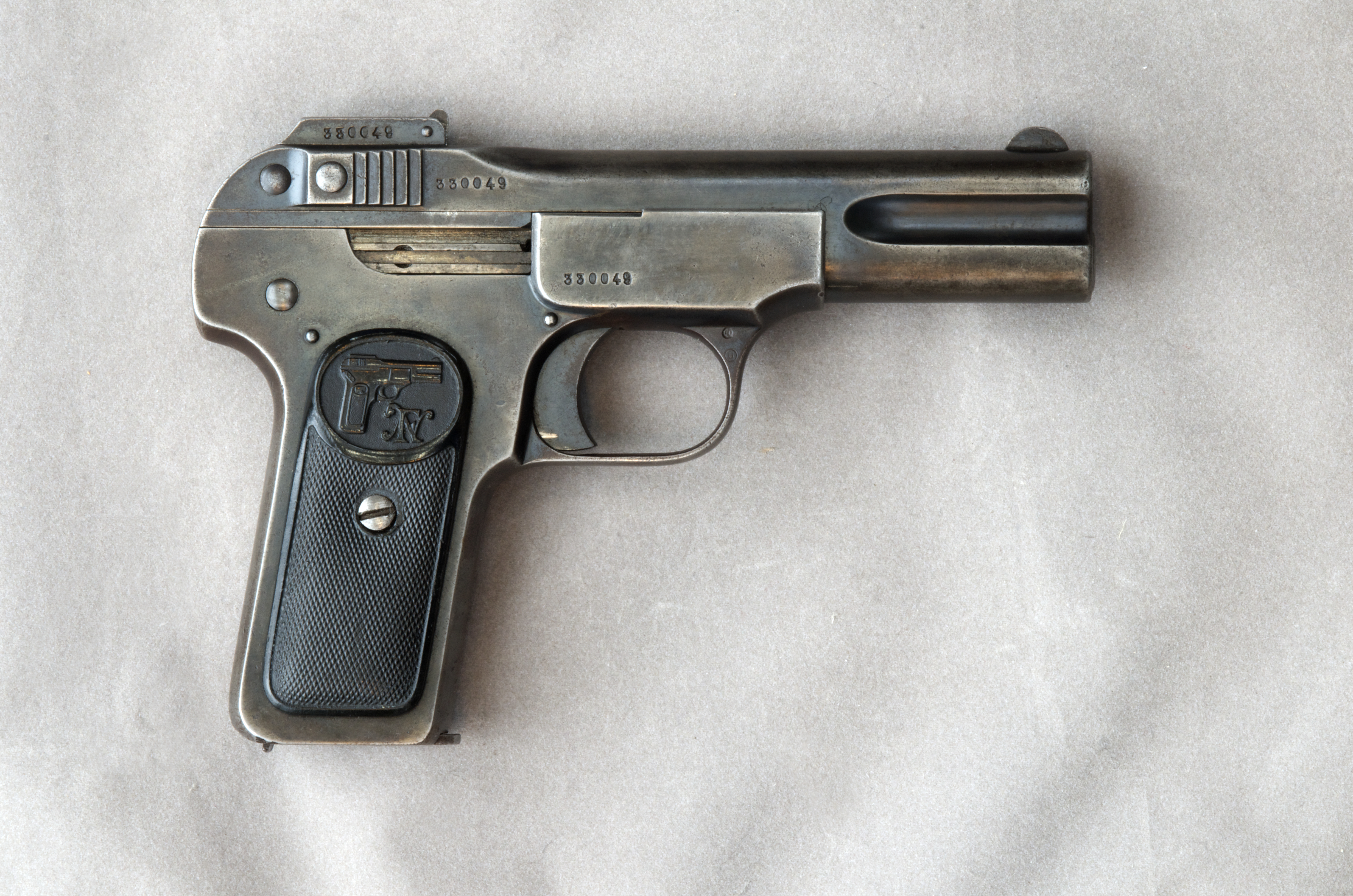 Browning 1900 .32 ACP S/n 330049 Right side. Made c. 1909. Located Swanton, VT, 2013. See separate file for other side of gun.